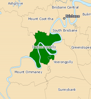 Electoral district of Indooroopilly (Queensland, Australia)